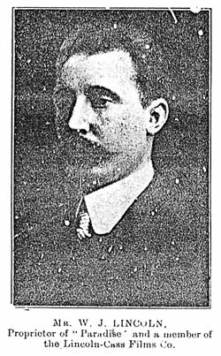 This is a photograph of W. J. Lincoln (1870–August 1917), Australian silent era film director.